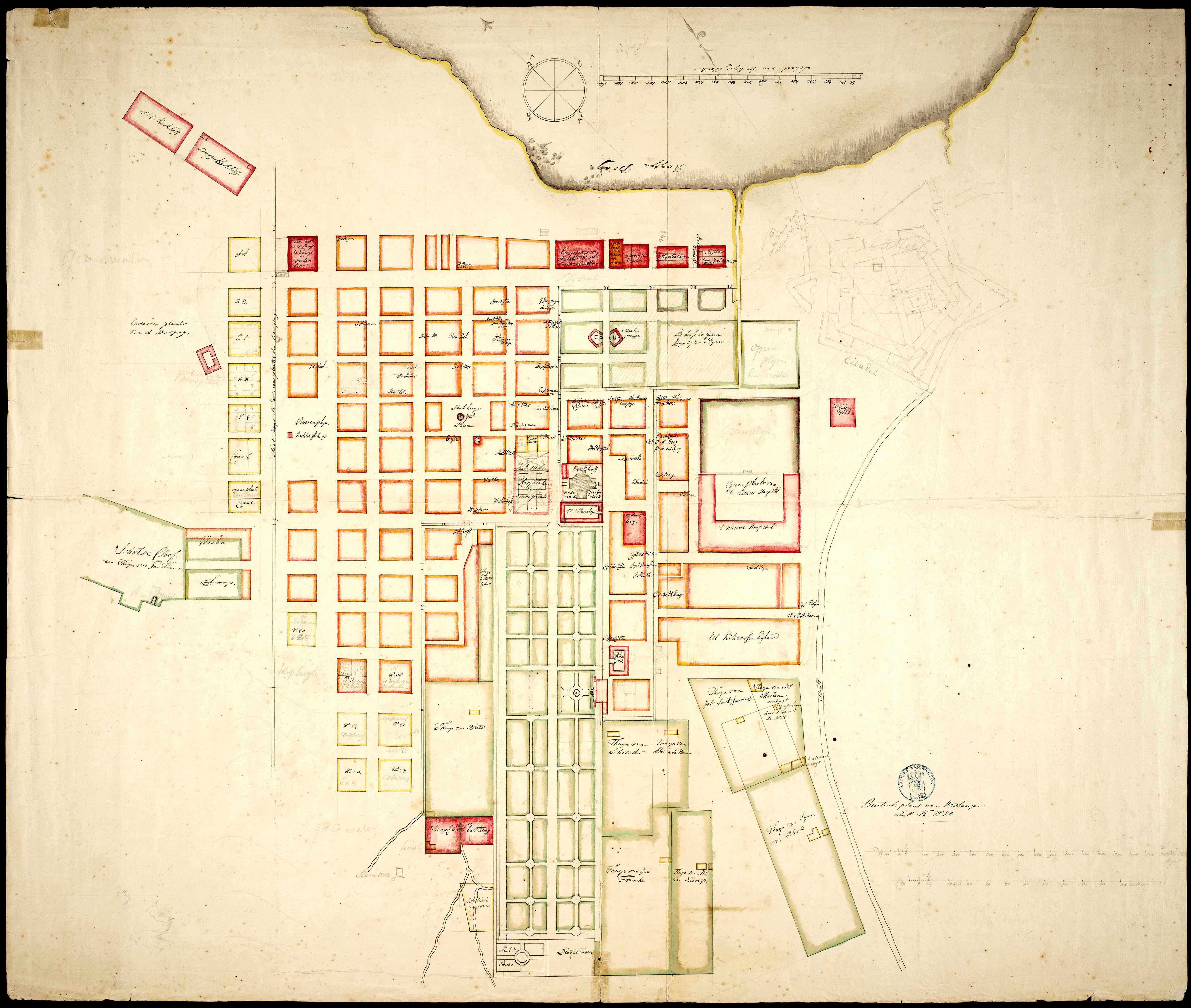 A map of Cape Town in 1785 indicating the blocks/erven as well as the family name of the owners